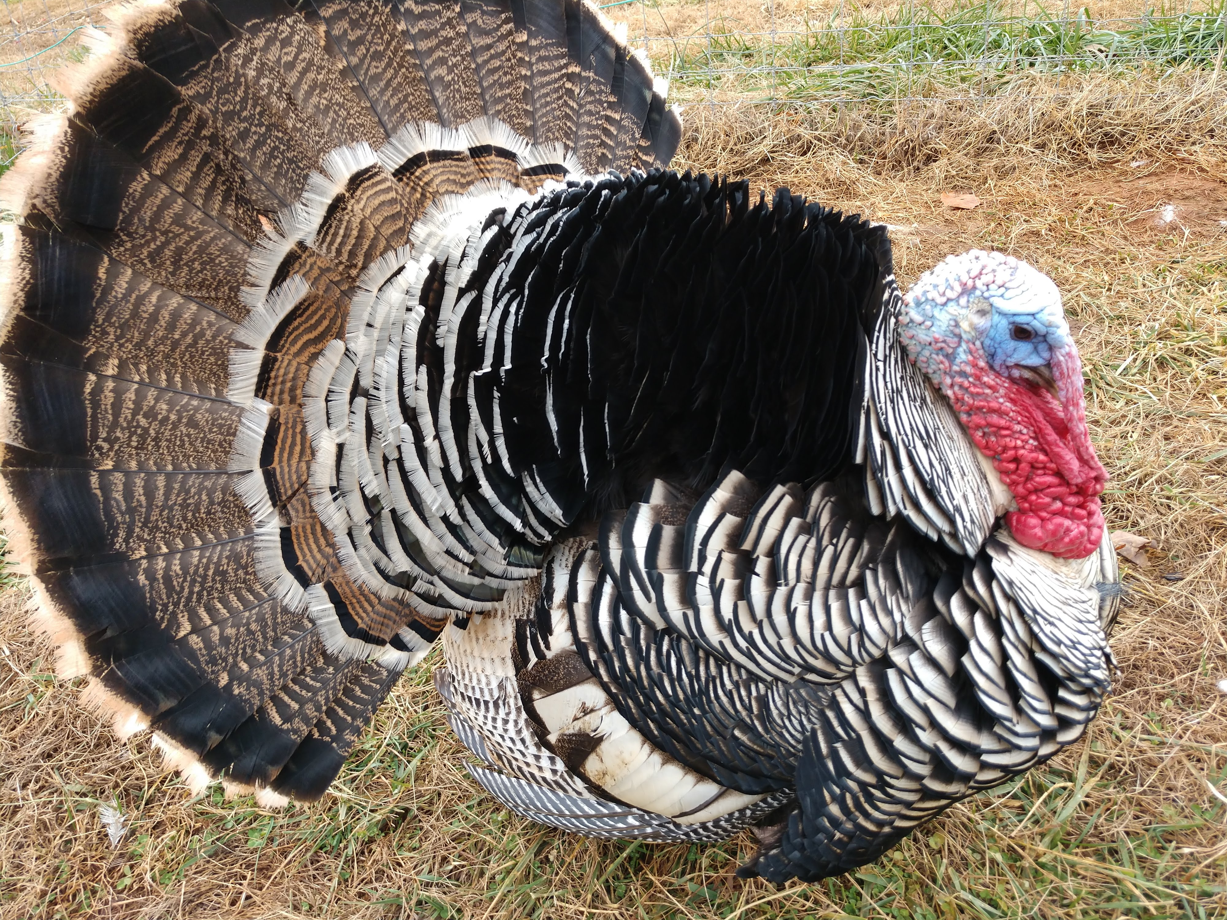 Male Narragansett turkey, approx. 2-3 years old. Full tail fan, angled toward viewer.